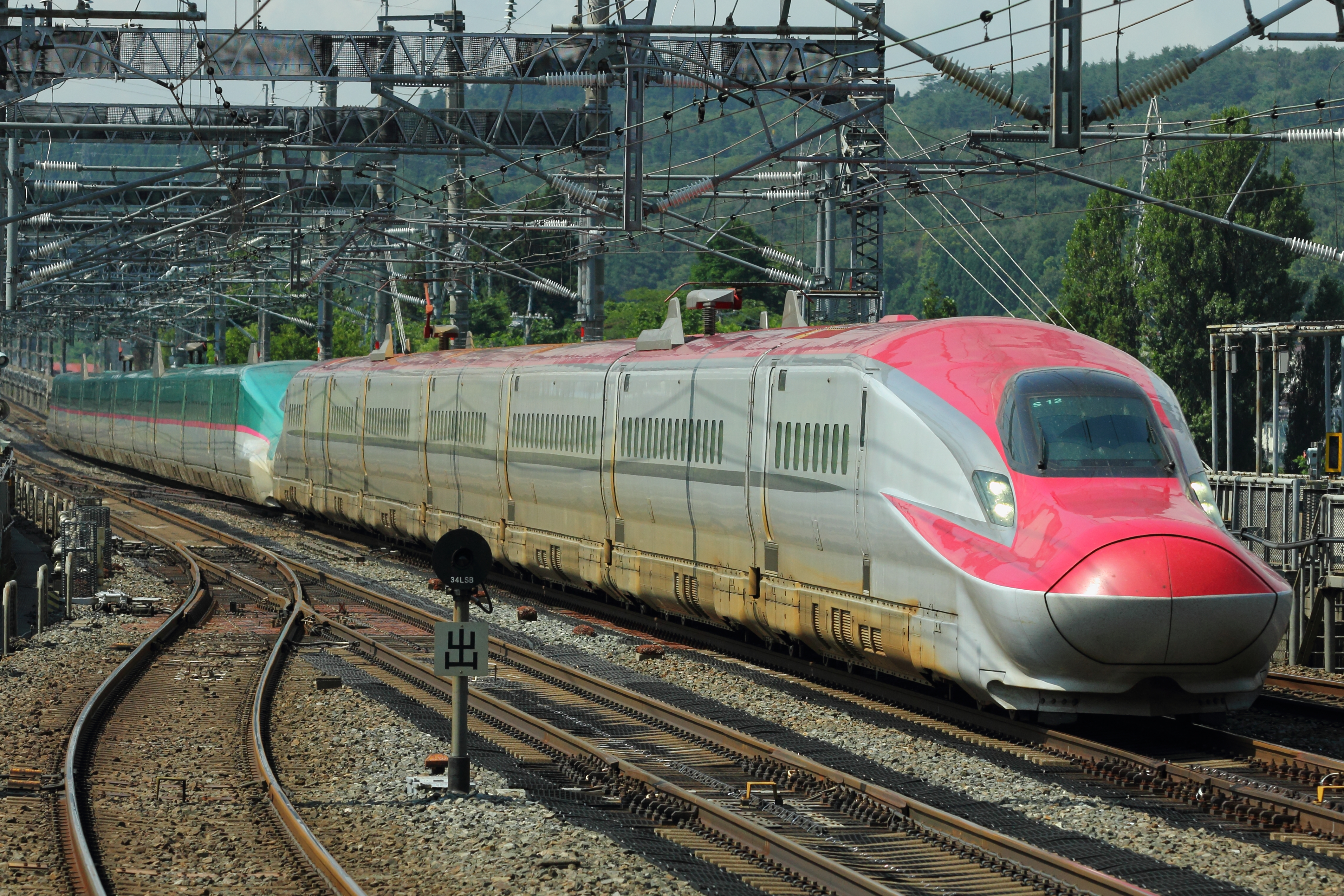 JR East E6 series shinkansen pre-production set S12 approaching Ichinoseki Station on a test-run with E5 series set S11 on the Tohoku Shinkansen